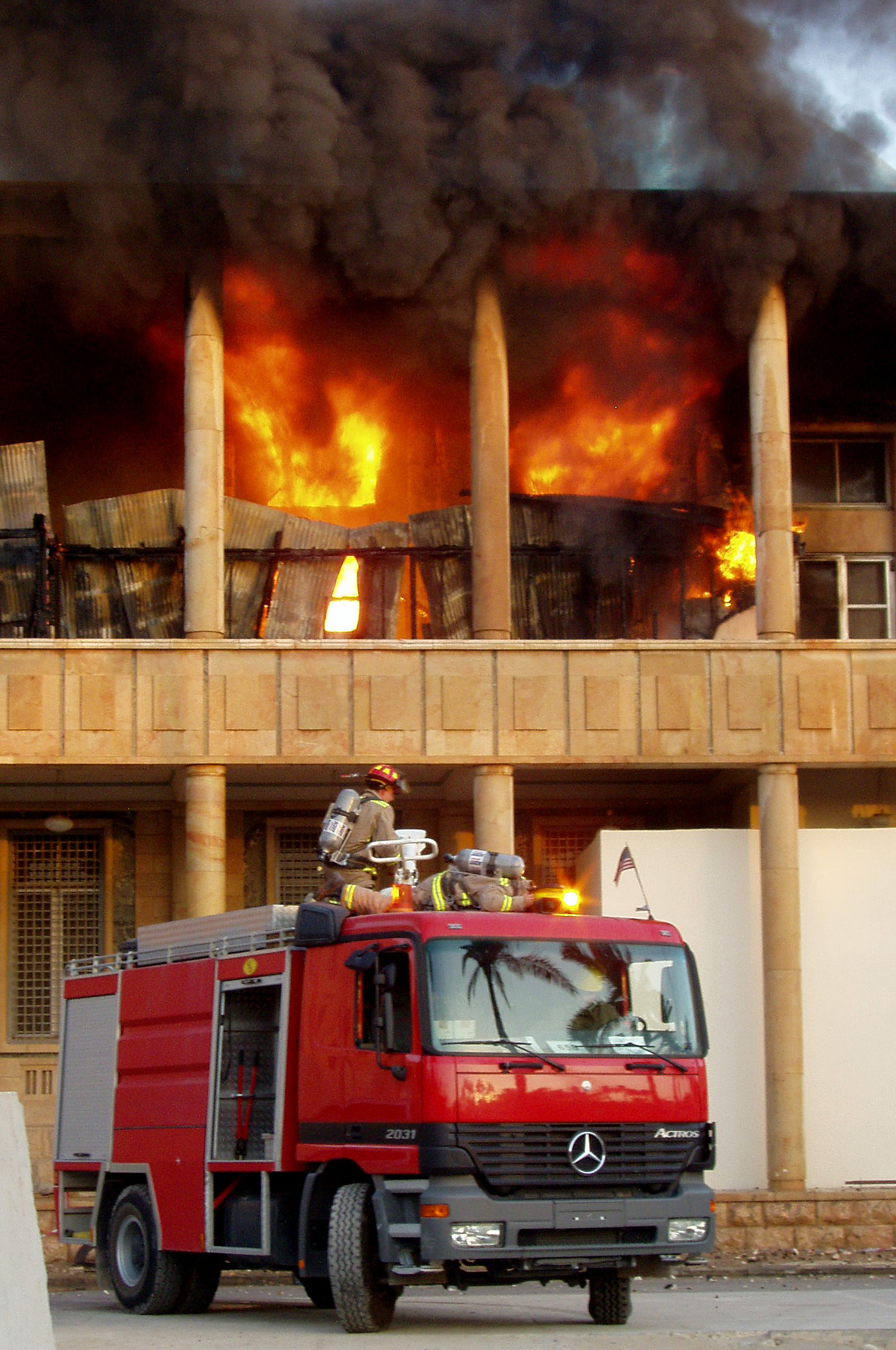 A fire engine of KBR's Green Zone fire department, Baghdad, Iraq, with firefighters (wearing SCBA) respond to a fire at the US embassy. A Mercedes Benz Actros 2031 vehicle. Original description: Flames engulf the second floor of the U.S. embassy in Baghdad, Iraq, Aug. 23, 2004. An electrical malfunction caused the fire, which firefighters contained and successfully extinguished. DoD photo by unknown. (Released)